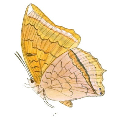 Haridra aristogiton